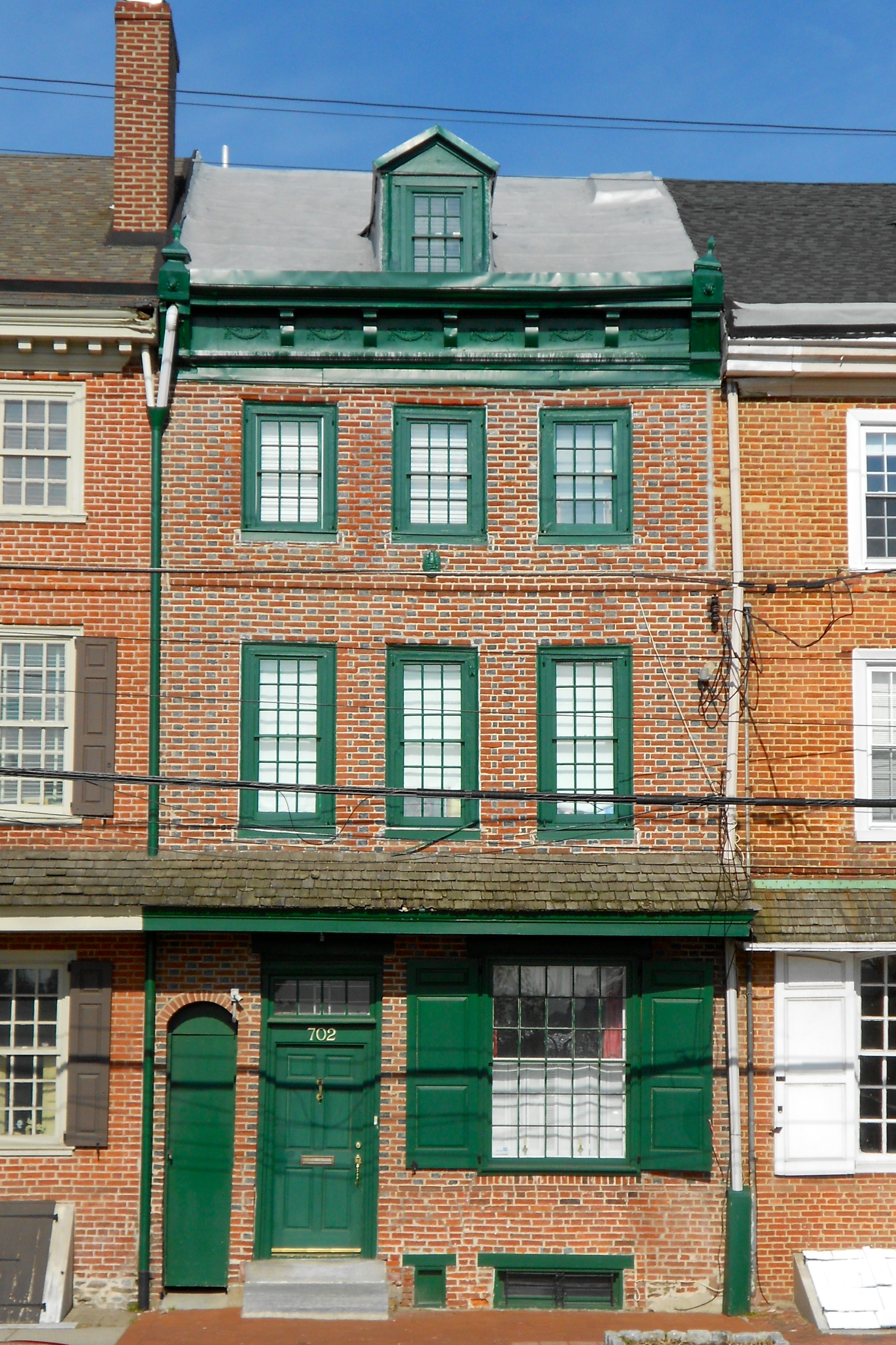 House at 702 South Front street, Philadelphia, Pennsylvania. 700-712 are listed on the NRHP as the South Front Street Historic District and 702 is listed separately as the Captain Thomas Moore House.